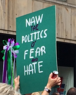 Banner Nae to Politics